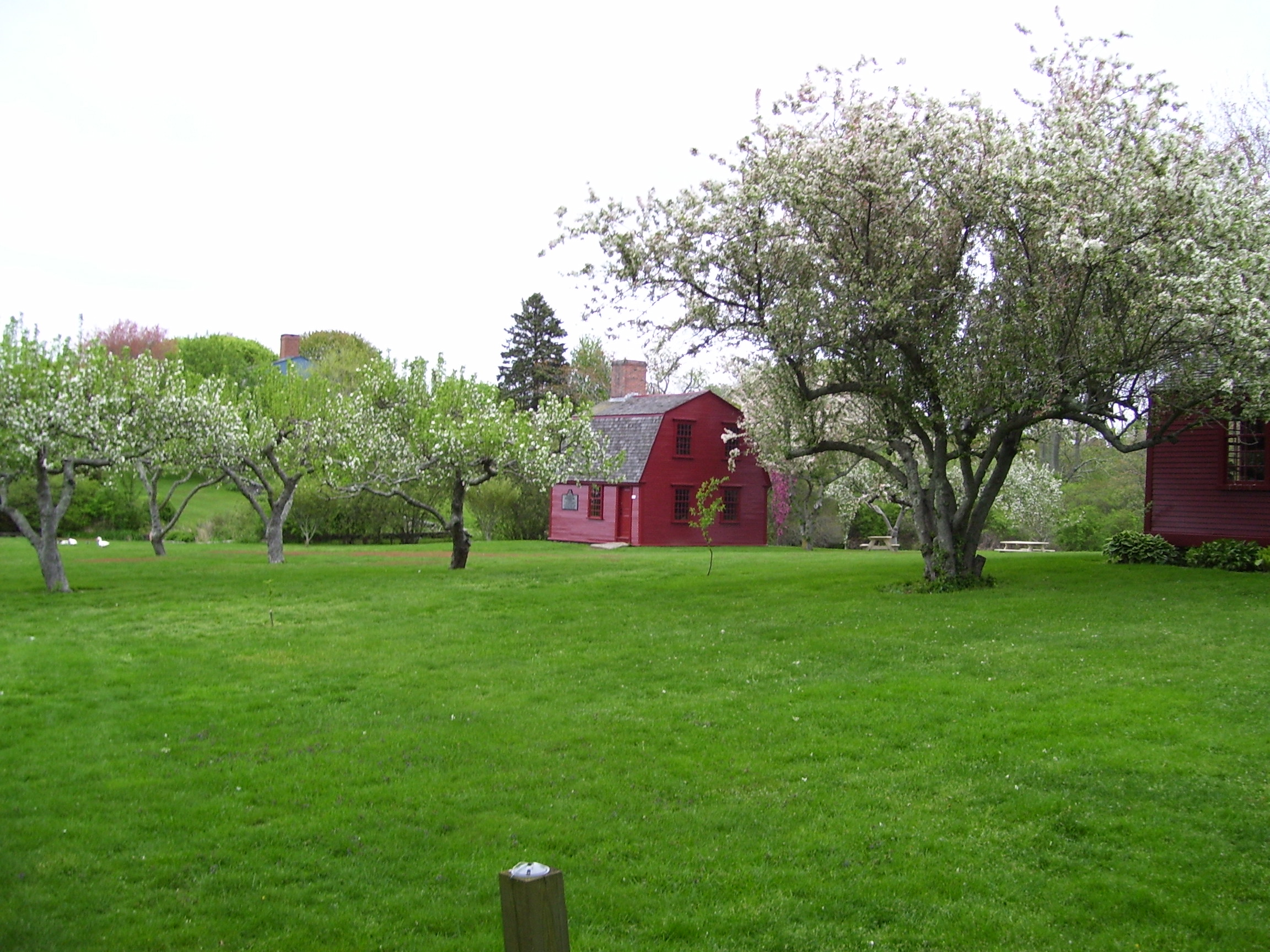 This is my pic of the Prescott Farm in Middletown, RI in 2008